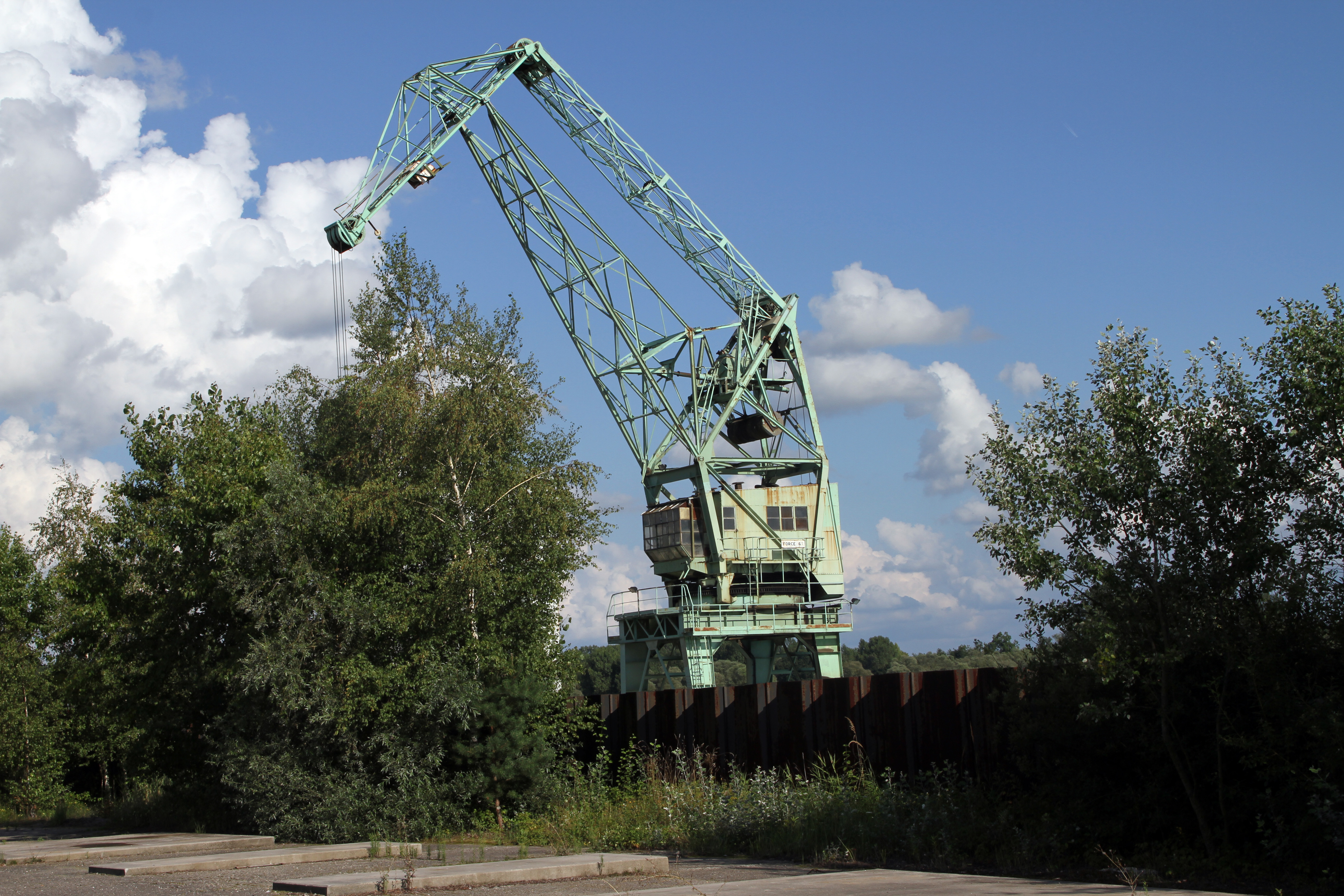 Lauterbourg harbour